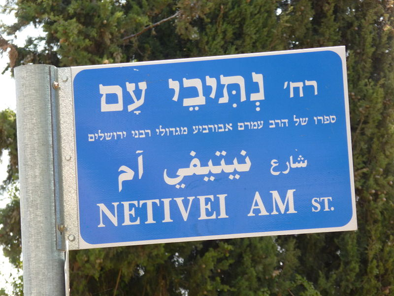 Jerusalem, Netivei Am street sign, name of the street after the book of Rav Amram Aburabeh, one of the big rabbins of Jerusalem